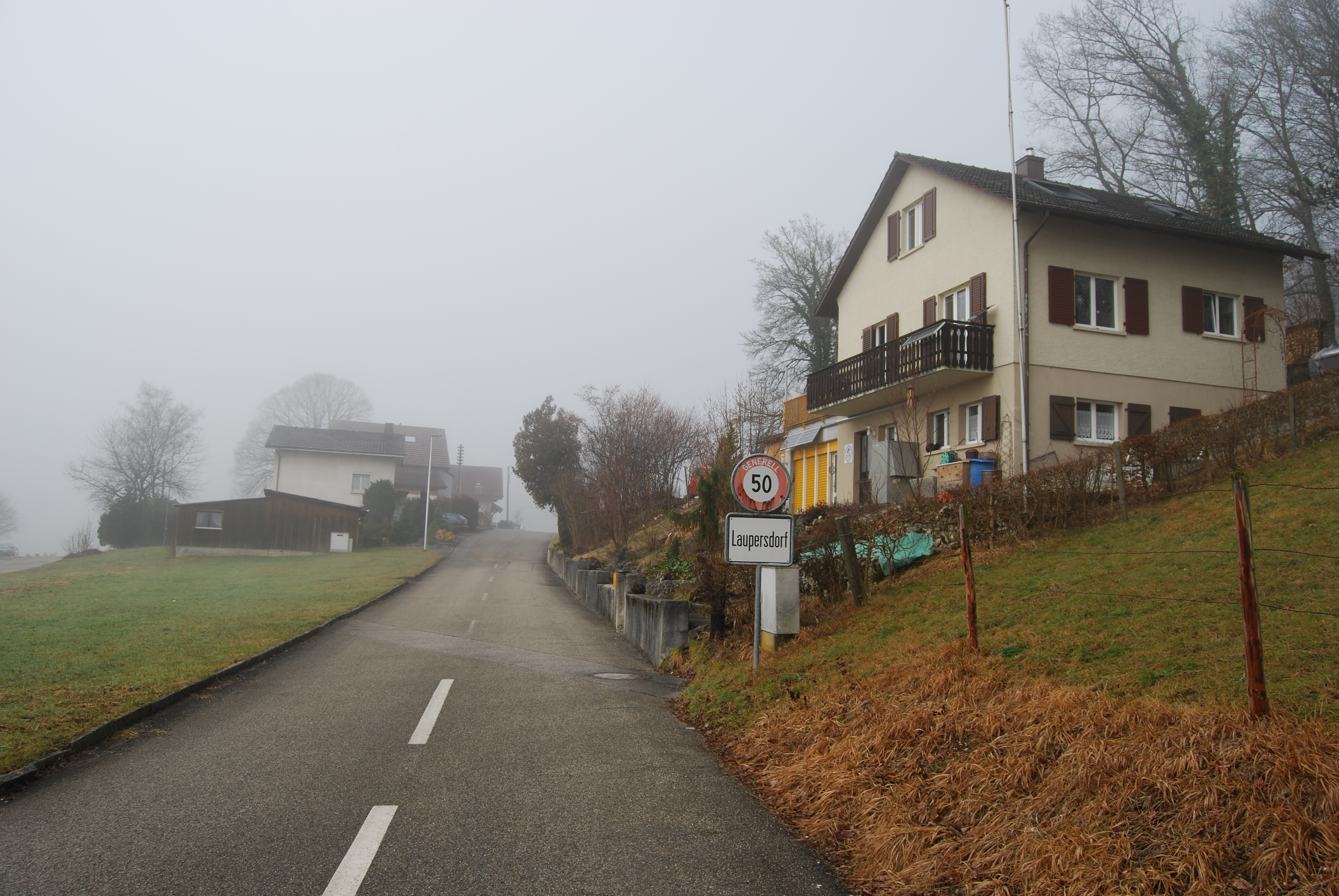 Laupersdorf, canton of Solothurn, Switzerland